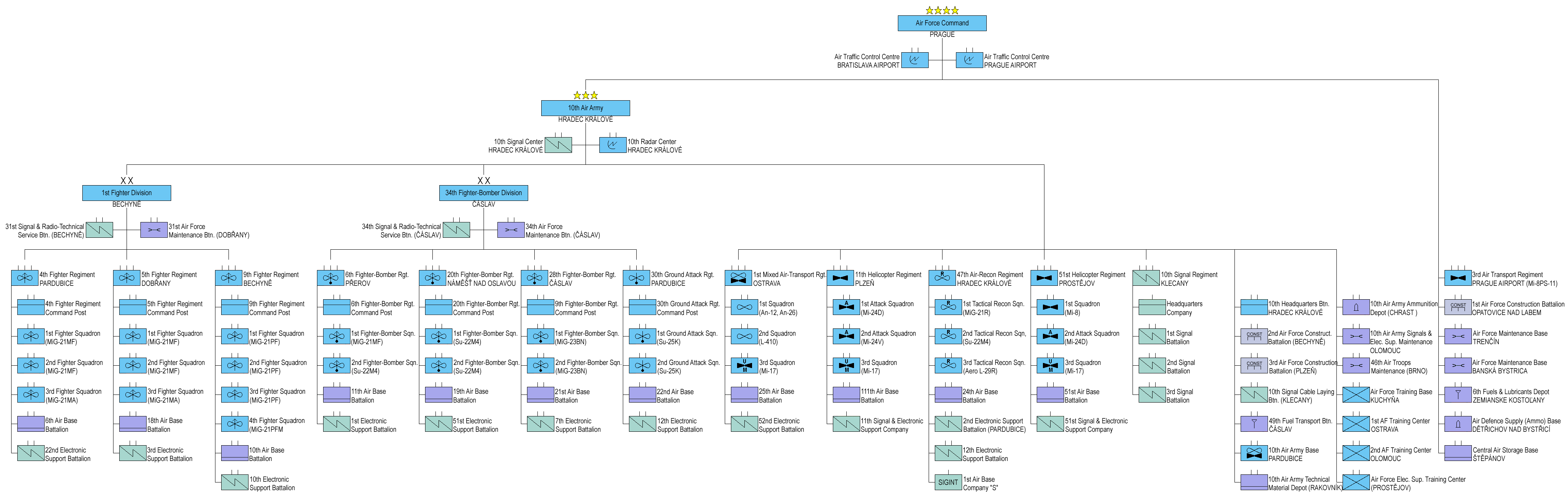 Military of Czechoslovakia: Air Forces Structure in 1989